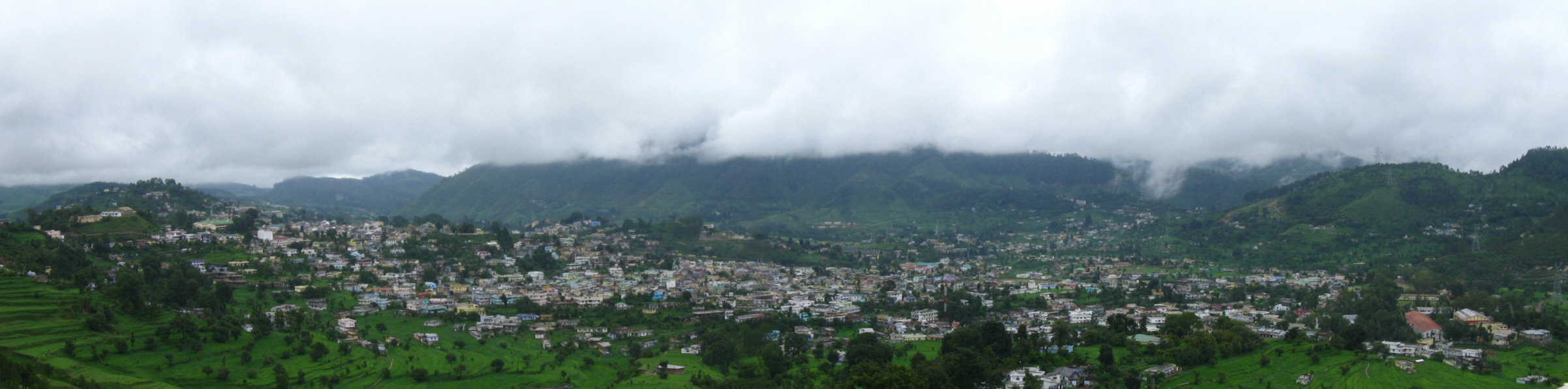 A Panoramic view of valley of pithoragarh taken from a higher Vantage point. The time of taking these shots is around 11:00 AM and it was during the month of July 2010.